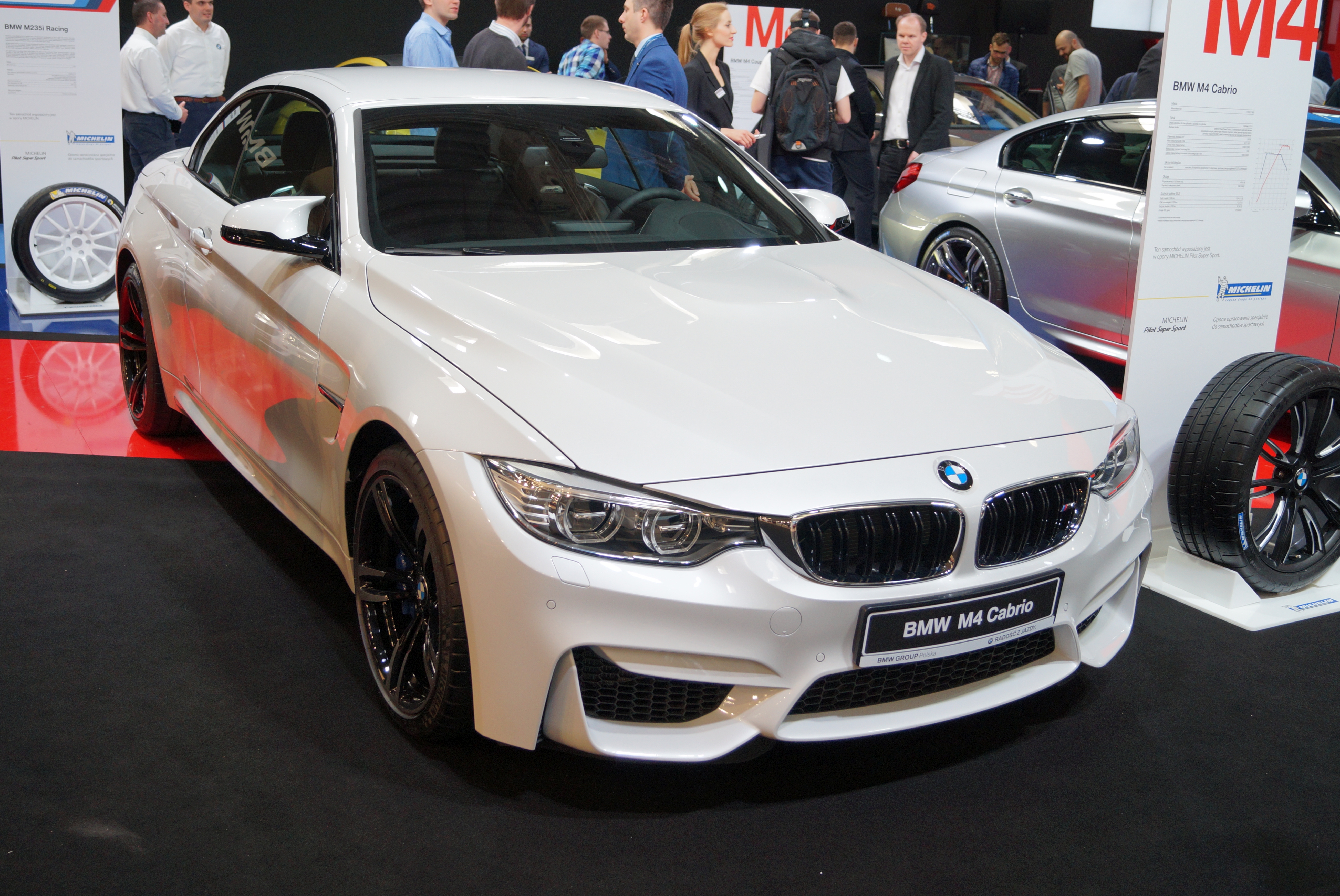 The making of this document was supported by Wikimedia Polska Association, within Wikigrant no. WG 2015-19. English | polski | +/− BMW M4 Cabrio na Motor Show Poznań 2015